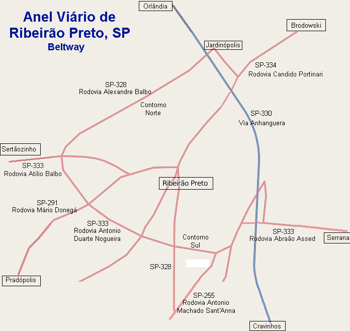 Highway beltway of the city of Ribeirão Preto, state of São Paulo, Brazil. Status as of July 2009. Drawn, labelled and uploaded by author, Renato M.E. Sabbatini.